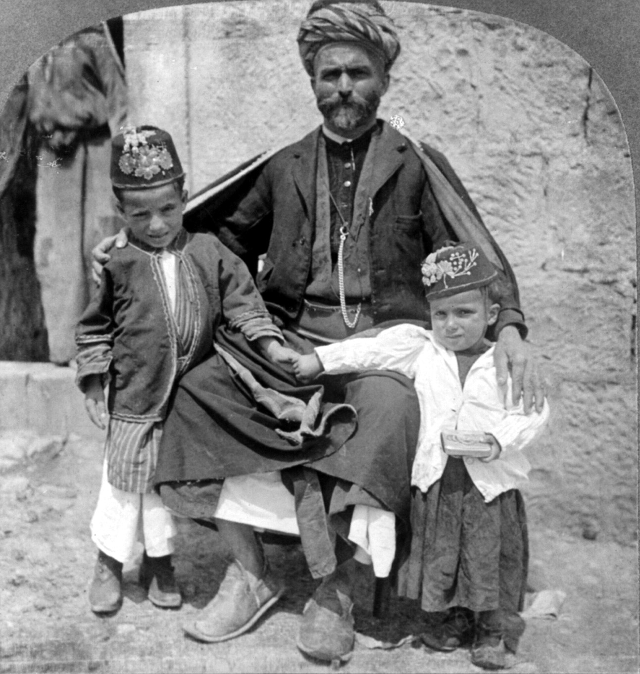 Father and children, showing costumes, Ramallah, Palestine.